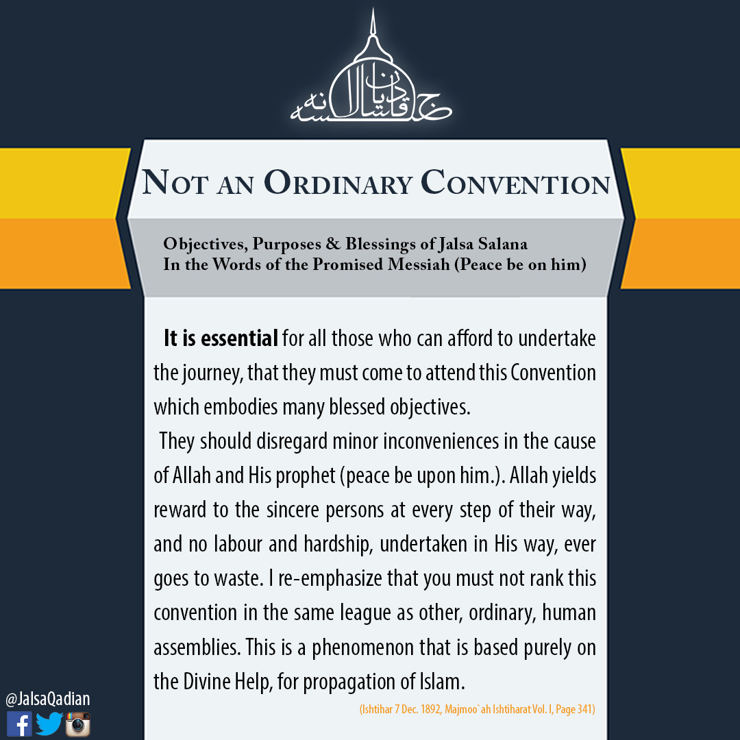 The Purpose of Jalsa Salana in the words of Hadhrat Mirza Ghulam Ahamd a.s